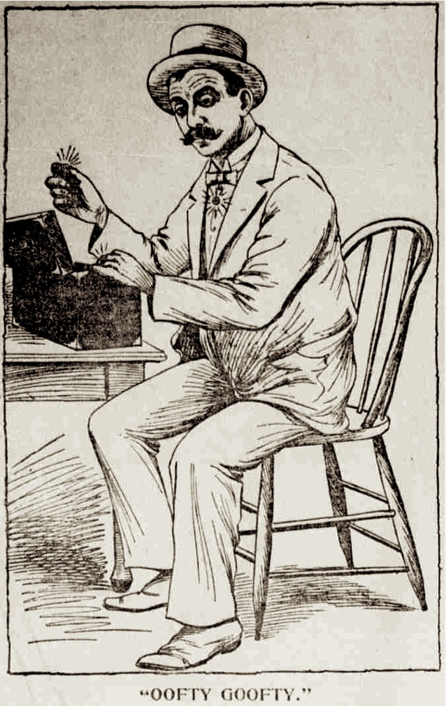 "Oofty Goofty" Leonard Borchardt